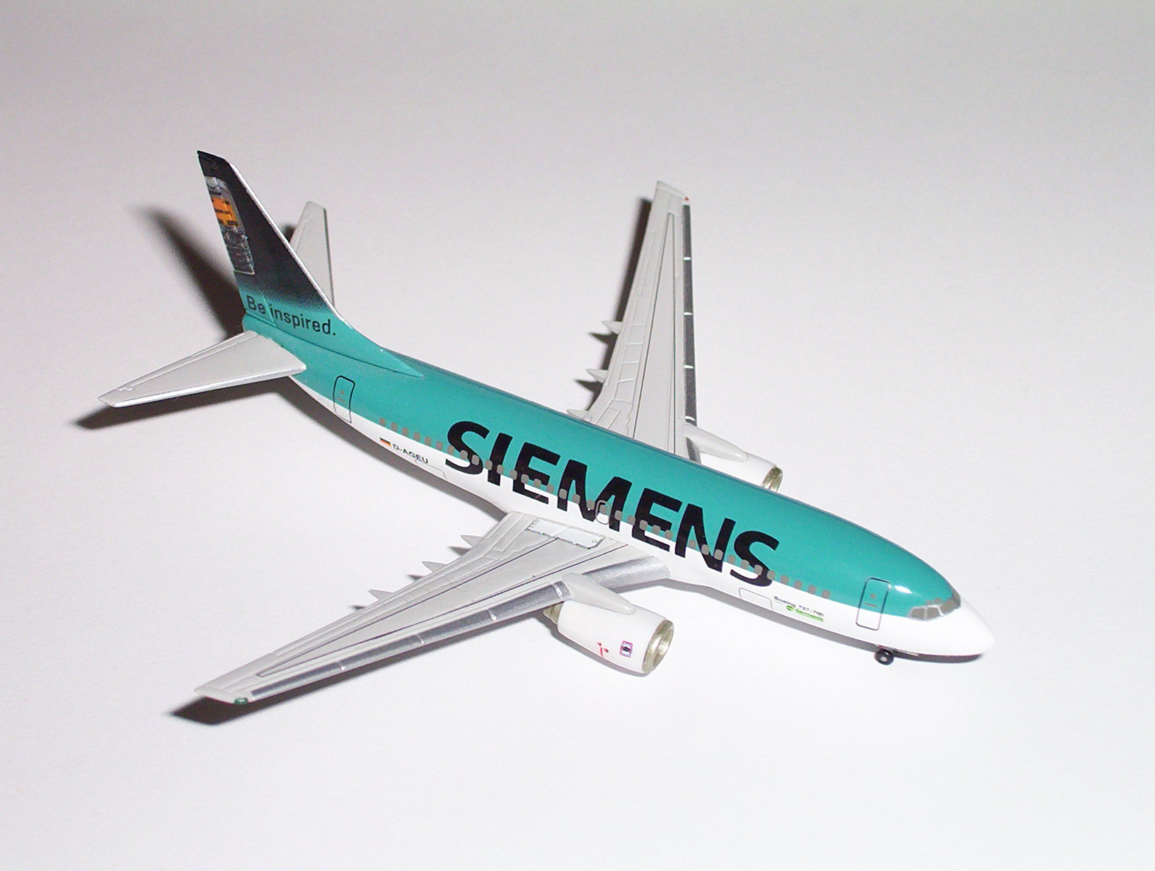 A miniature airplane from German manufacturer Herpa from their Herpa Wings Collection.